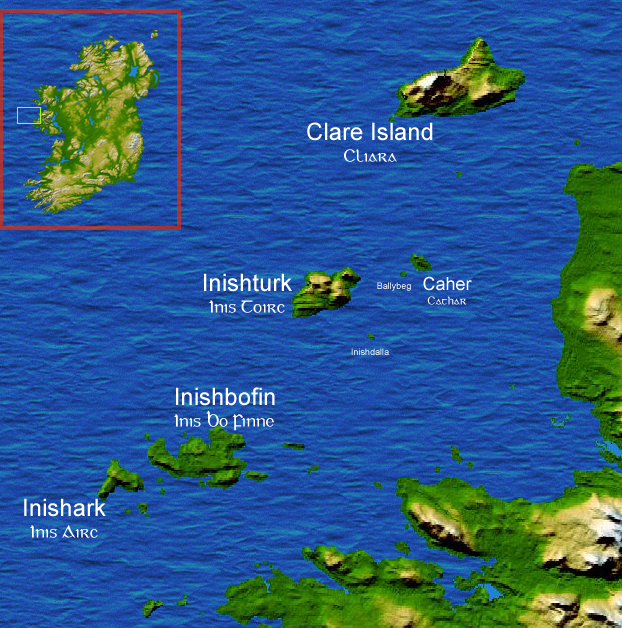 County Mayo and County Galway isles map.